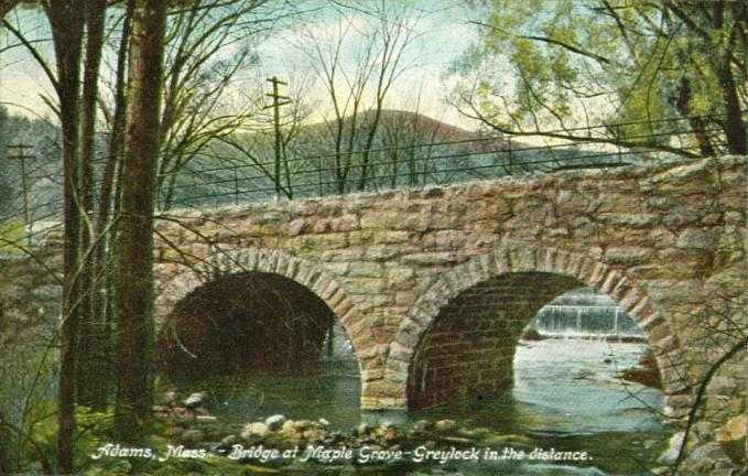 Bridge at Maple Grove, Mount Greylock in the distance, Adams, MA; from a c. 1910 postcard.